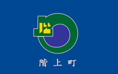 Flag of Hashikami Aomori